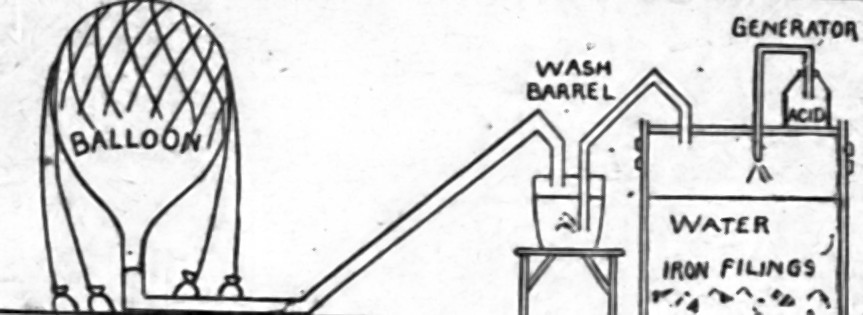 Myers hydrogen gas generator for filling balloons